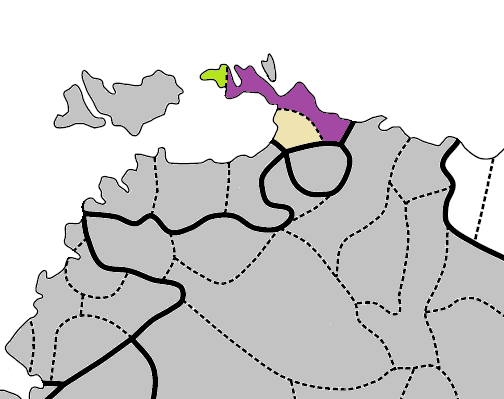 Iwaidjan languages. Amurdag is the southern section (tan), Wurrugu the tip of the peninsula (green), the rest Iwaidjic (purple). On the grey island just offshore is Marrgu, once thought to be Iwaidjan.